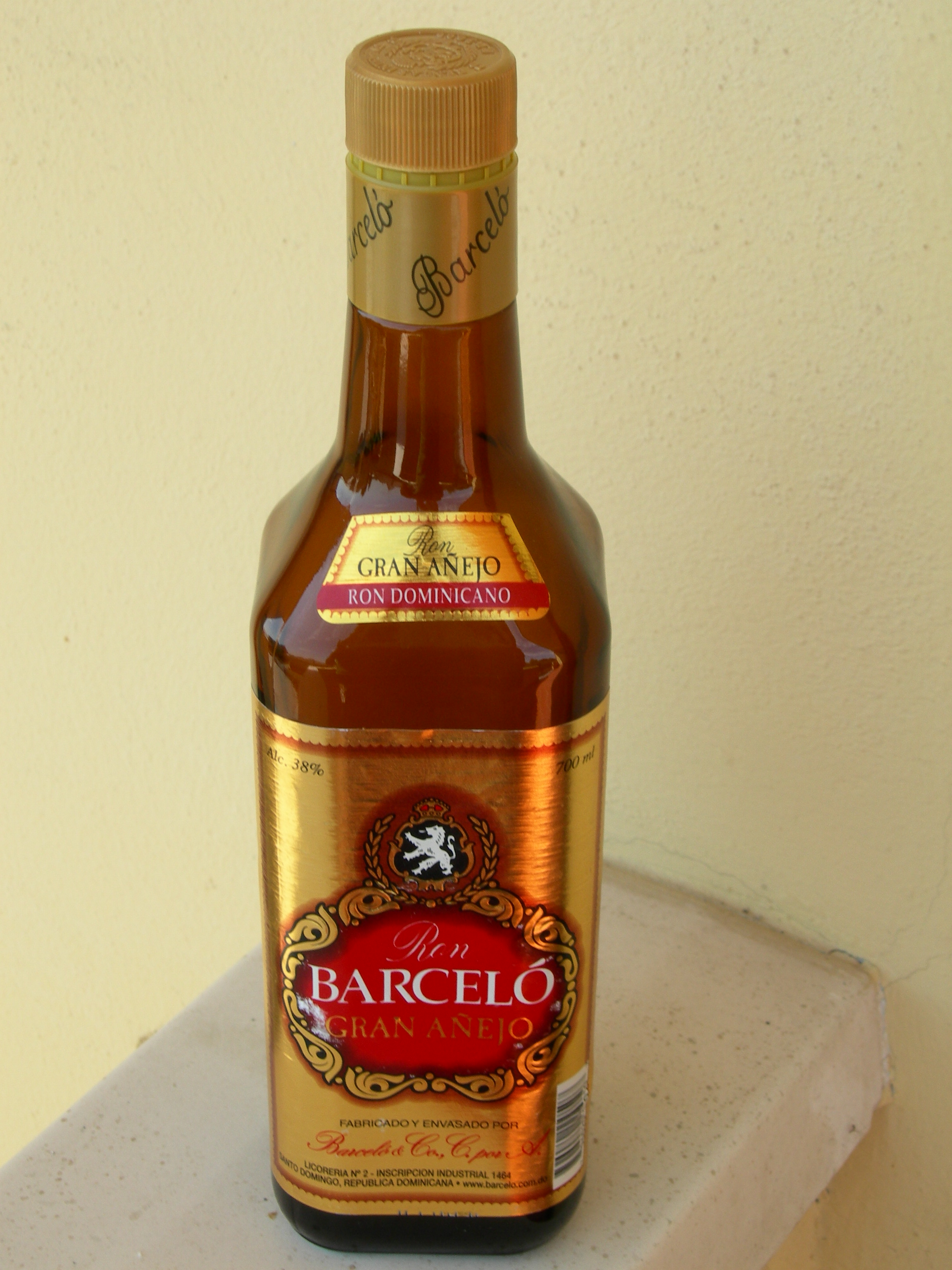 A bottle of Barceló Rum.